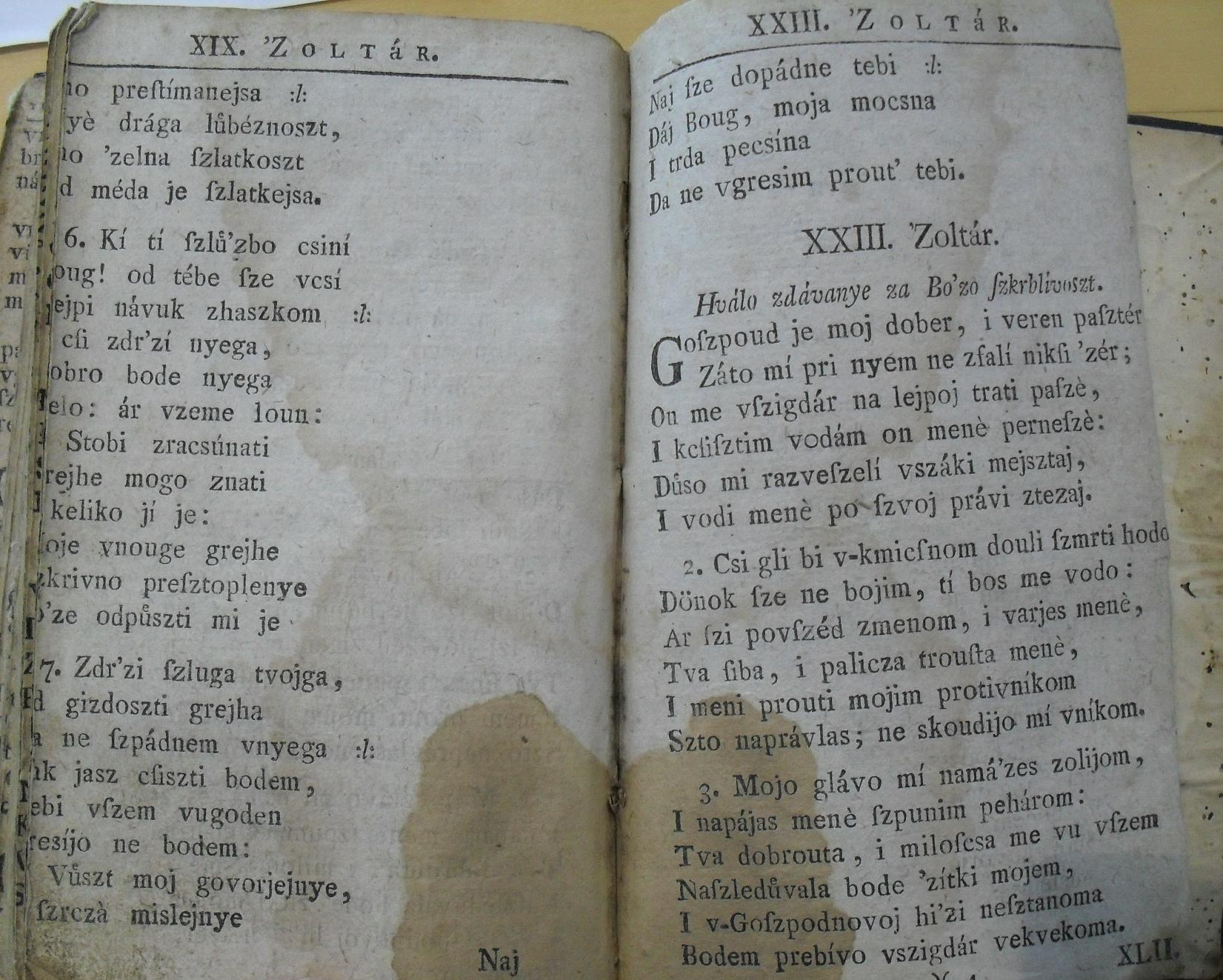 The 23. Psalm in Prekmurian language (prekmurščina) in the great lutheran hymnal Nouvi Gráduvál of Mihály Bakos (1789)